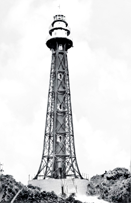 The first lighthouse tower erected at Apo Reef in Mindoro Occidental, the Philippines. The iron skeletal tower was brought from France by the Spaniards and was erected by the Americans and Filipinos in 1906